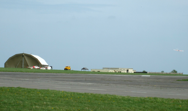 RAF Little Rissington There was some gliding taking place when I took this photo. At 730 feet above sea level, RAF Little Rissington is the highest paved aerodrome in the mainland of the United Kingdom. RAF Little Rissington is presently used for flying training, a relief landing ground (RLG) for RAF Benson and RAF Lyneham, and ground training by RAF Brize Norton and various Army Units.